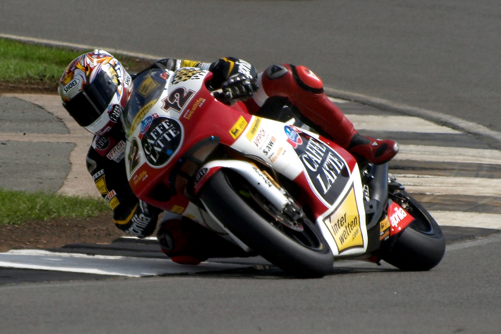 MotoGP 250cc Thomas Luthi Emmi - Caffe Latte